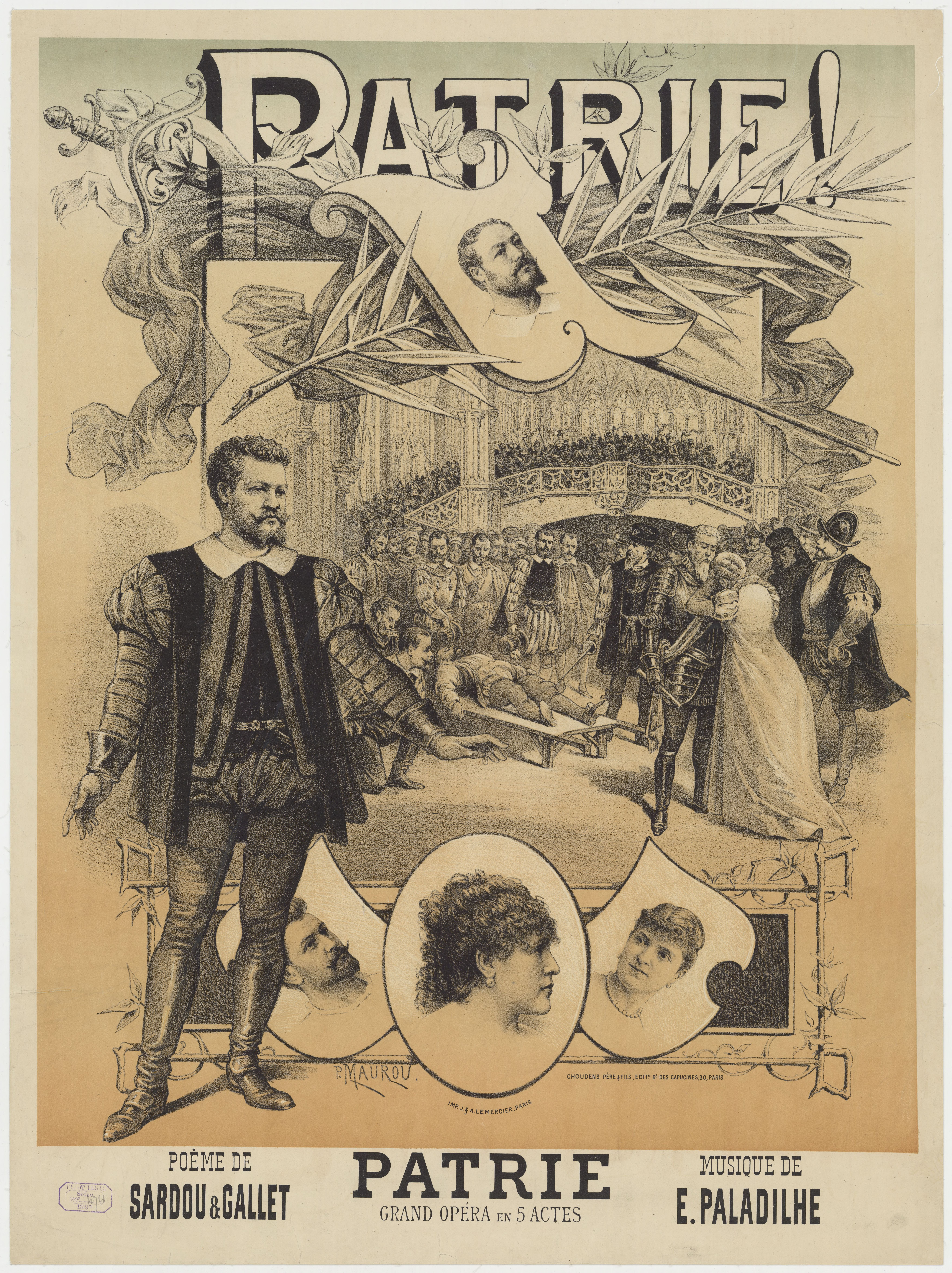 Poster (ithograph) for the 1886 opera Patrie!